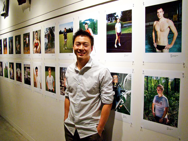 American artist Jeff Sheng with an exhibition of his photo series Fearless, about out lesbian, gay, bisexual and transgender (LGBT) high school and college athletes. Exhibition at the Drew School, high school, San Francisco, CA, January 15, 2009.